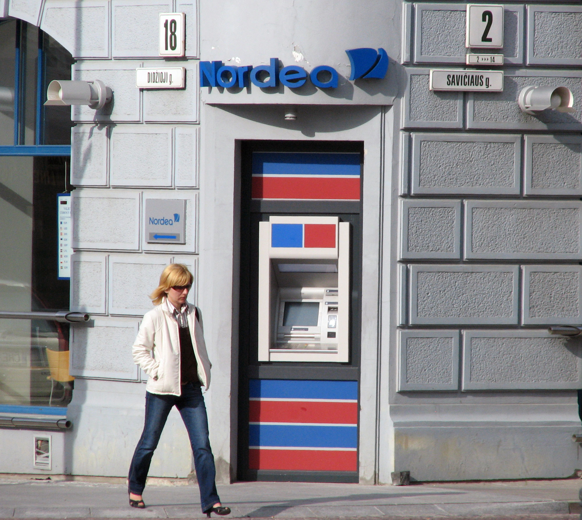 A Nordea ATM in Vilnius, Lithuania.